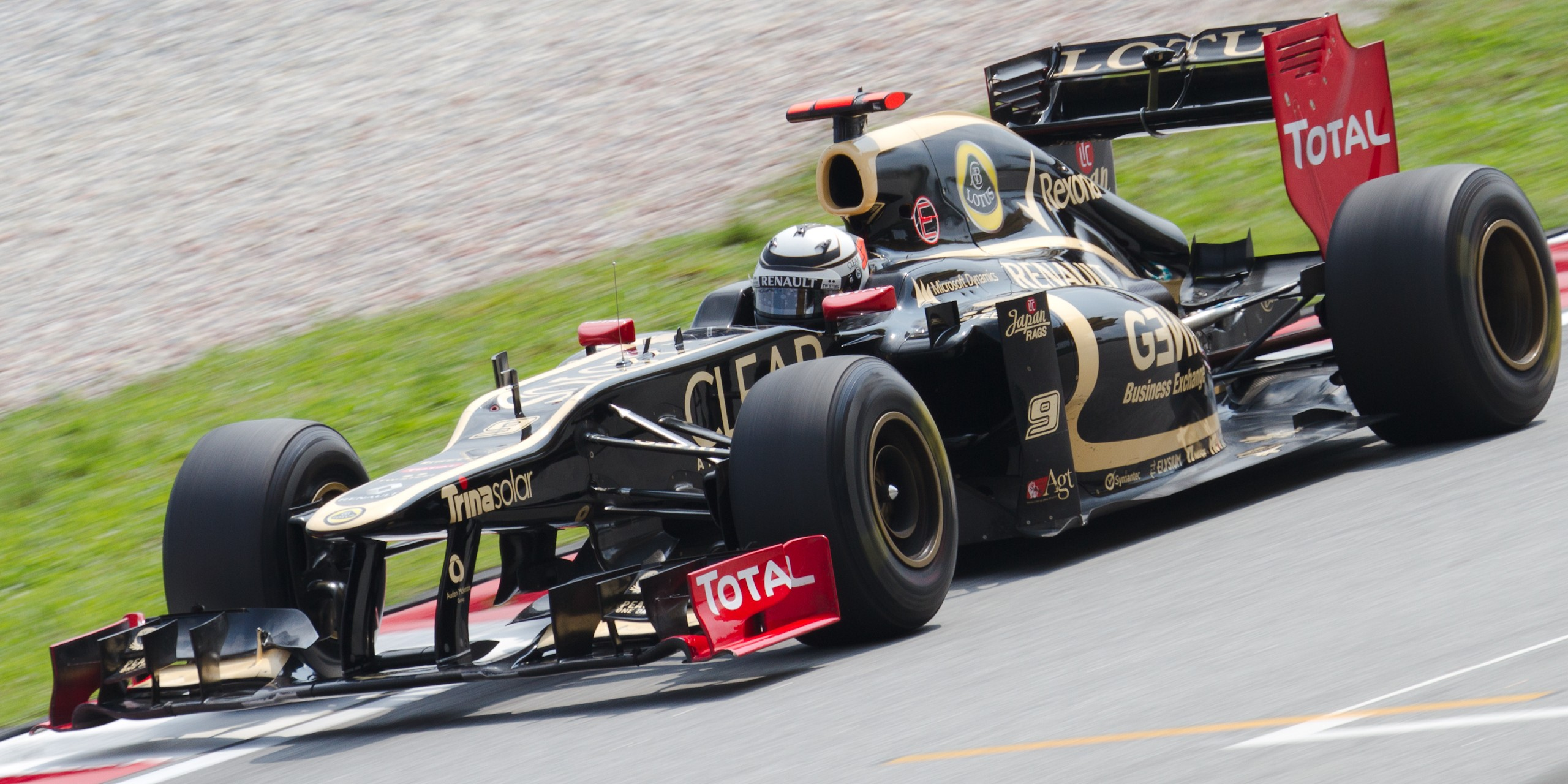 Formula One 2012 Rd.2 Malaysian GP: Kimi Räikkönen (Lotus) during the first practice session on Friday.